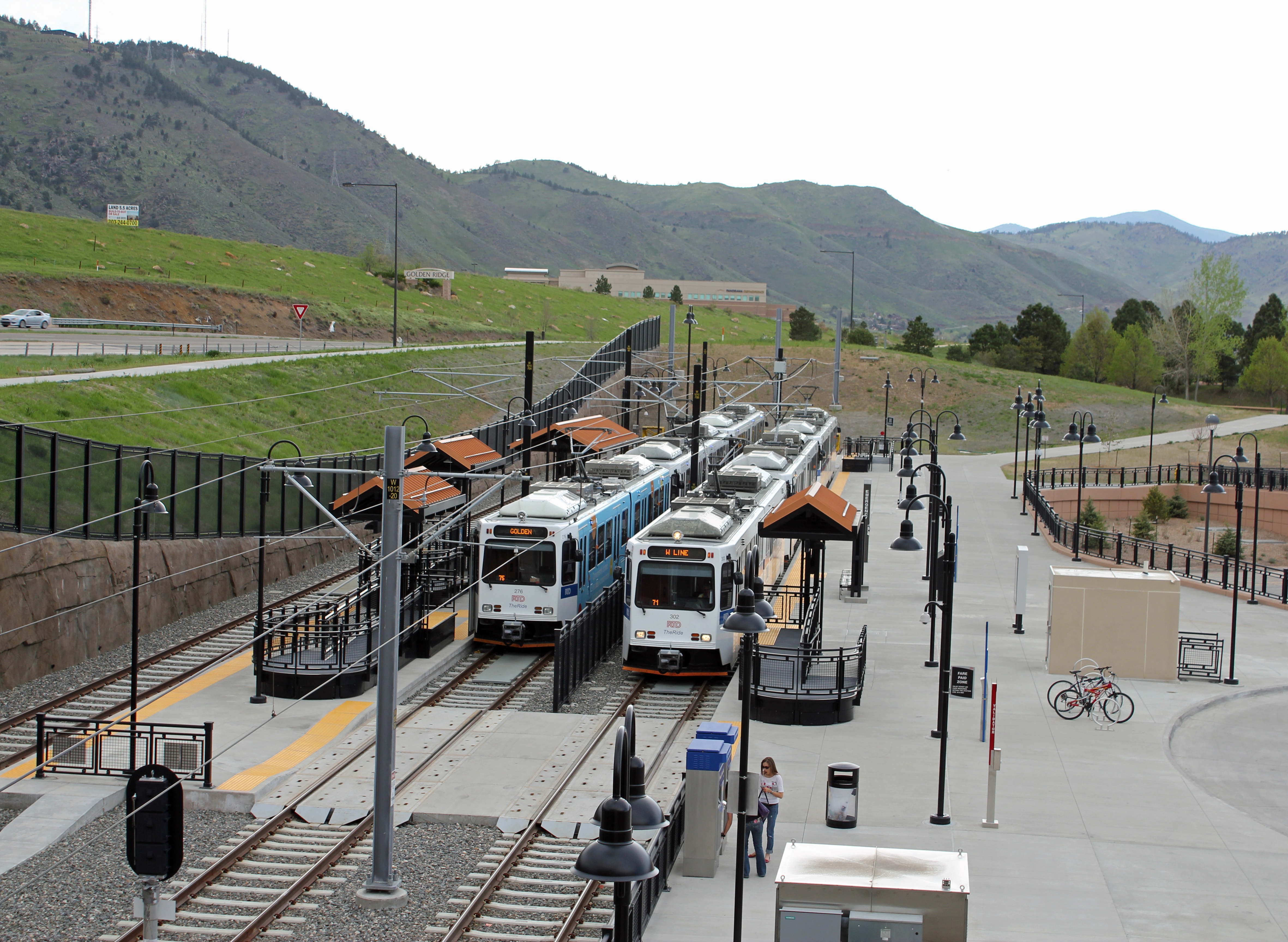 The Jefferson County Government Center/Golden RTD light rail stop in Golden, Colorado.